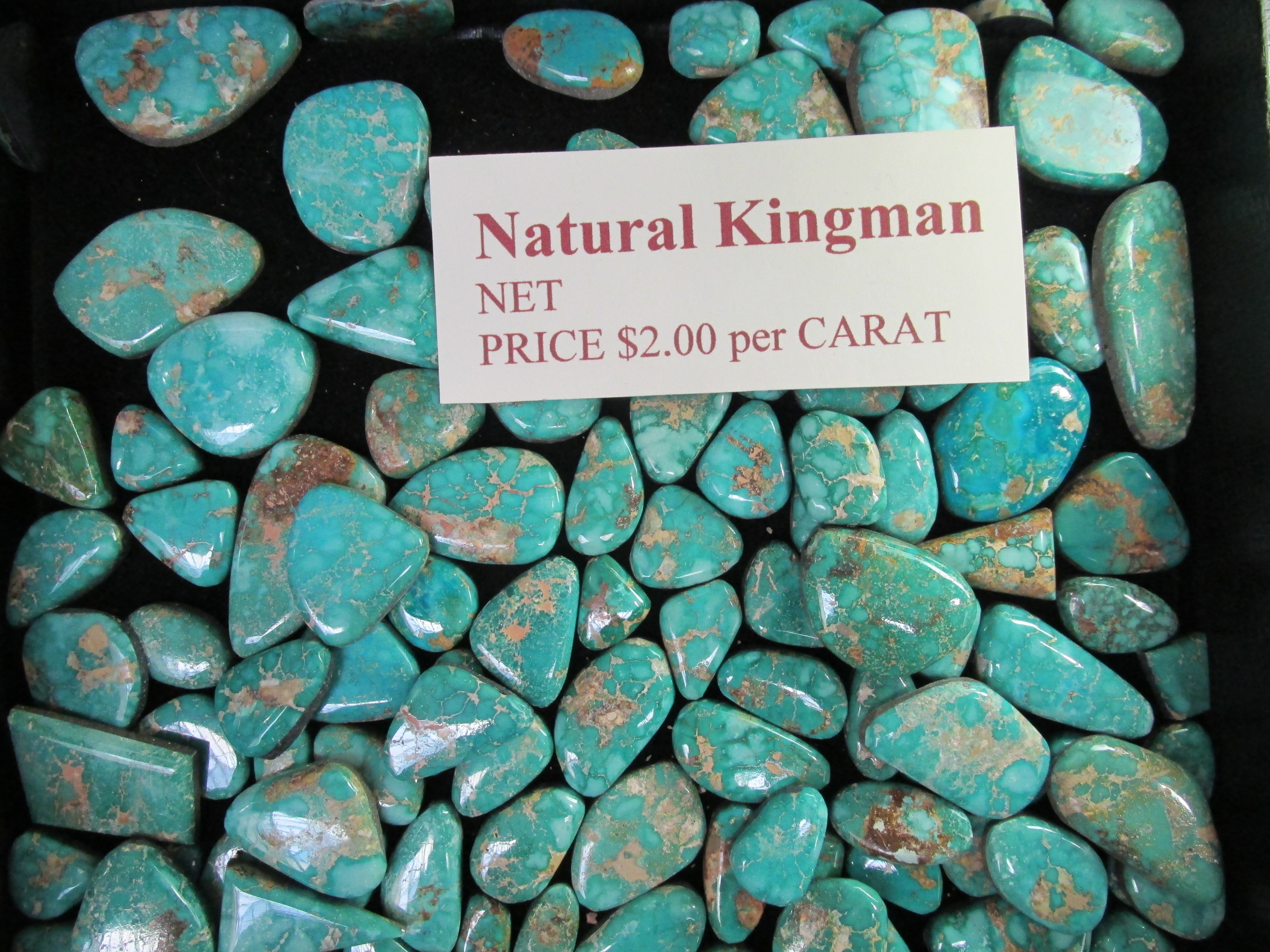 Natural Kingman Turquoise, Maisels, Albuquerque New Mexico